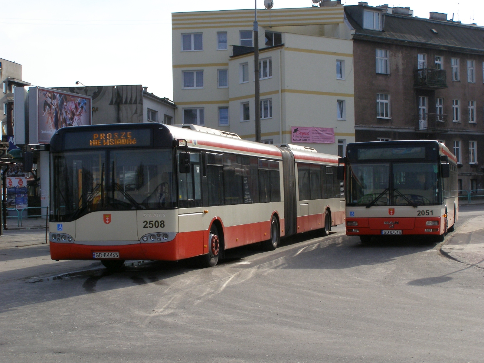 Gdańsk - Solaris Urbino 18 #2508 and MAN NL283 #2051 buses at Wrzeszcz PKP terminus